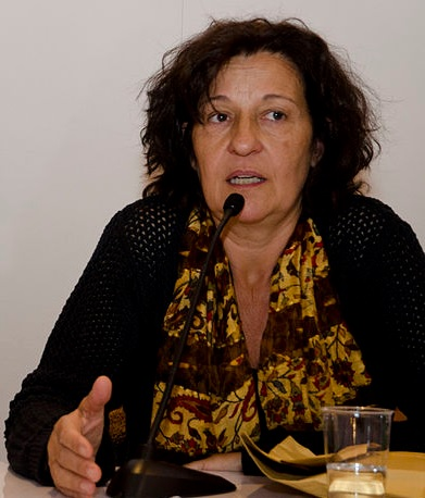 Paris, 24 Marzo 2014 - Daniel Filmus, Liliana Bodoc, Hernán Brienza y Mempo Giardinelli participaron of the mesa "Falklands in the literary" in from pabellón Argentine del Salon del Libro de París 2014. Fotos: Augusto Starita / Secretaría de Cultura de the Presidencia of the nation.